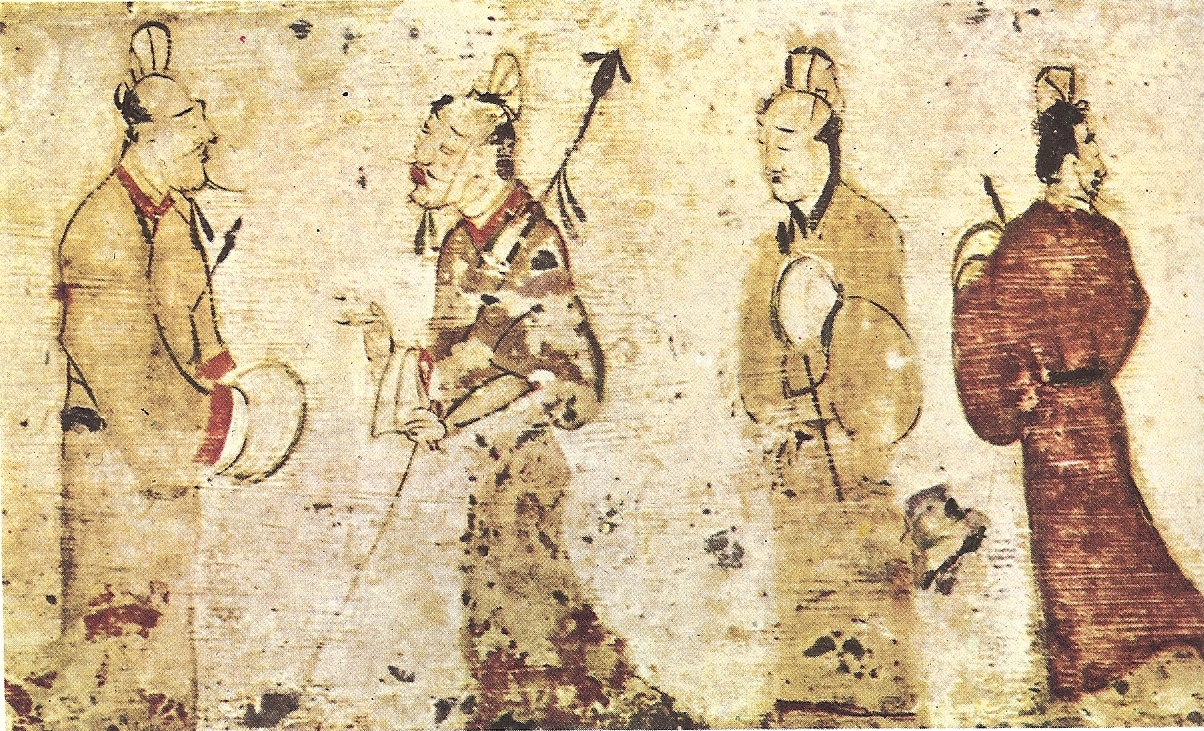 Two gentlemen engrossed in conversation while two others look on, a Chinese painting on paper near Luoyang, Henan province, dated to the Eastern Han Dynasty (25–220 AD).